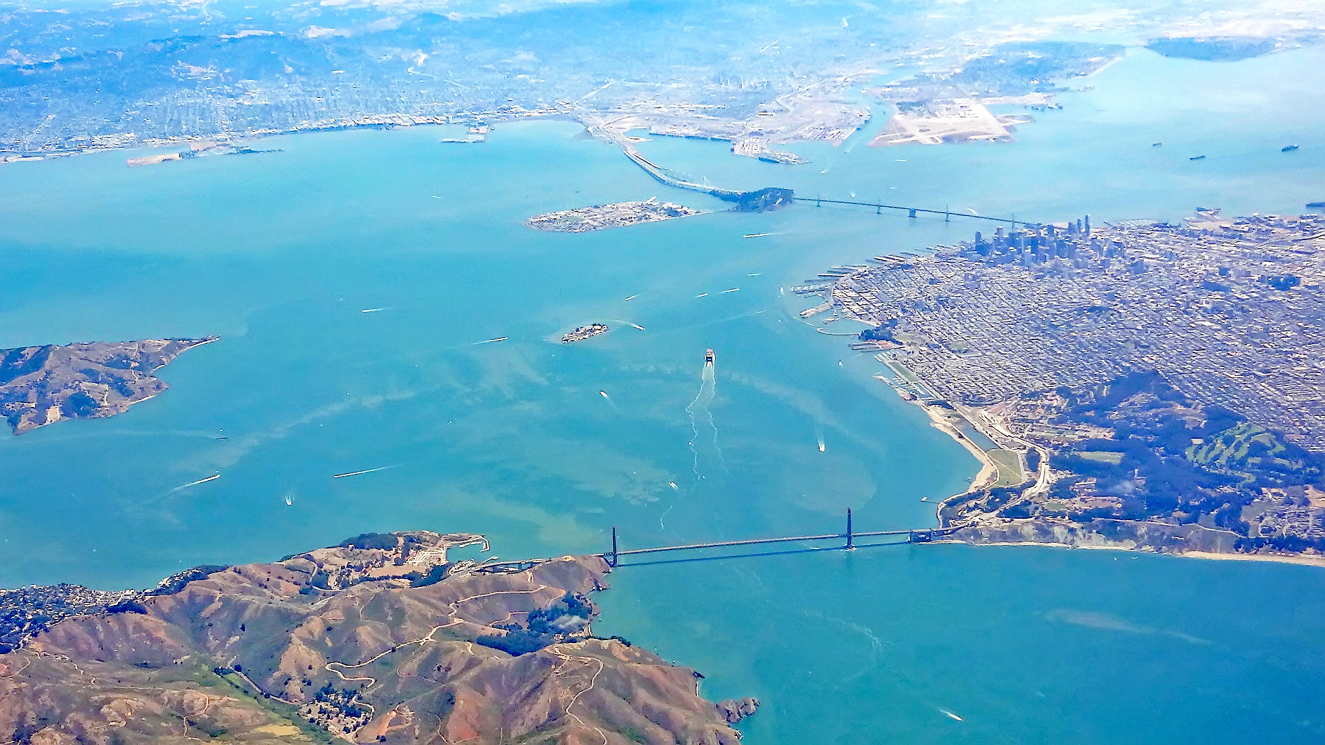 PLEASE, NO invitations or self promotions, THEY WILL BE DELETED. My photos are FREE to use, just give me credit and it would be nice if you let me know, thanks. Approaching San Francisco, top is the Oakland Bridge and below is the Golden Gate Bridge.